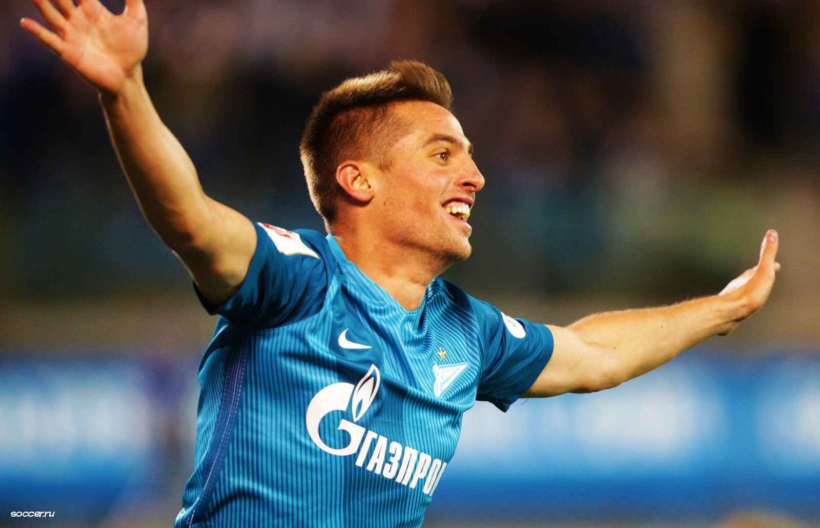 Robert Mak